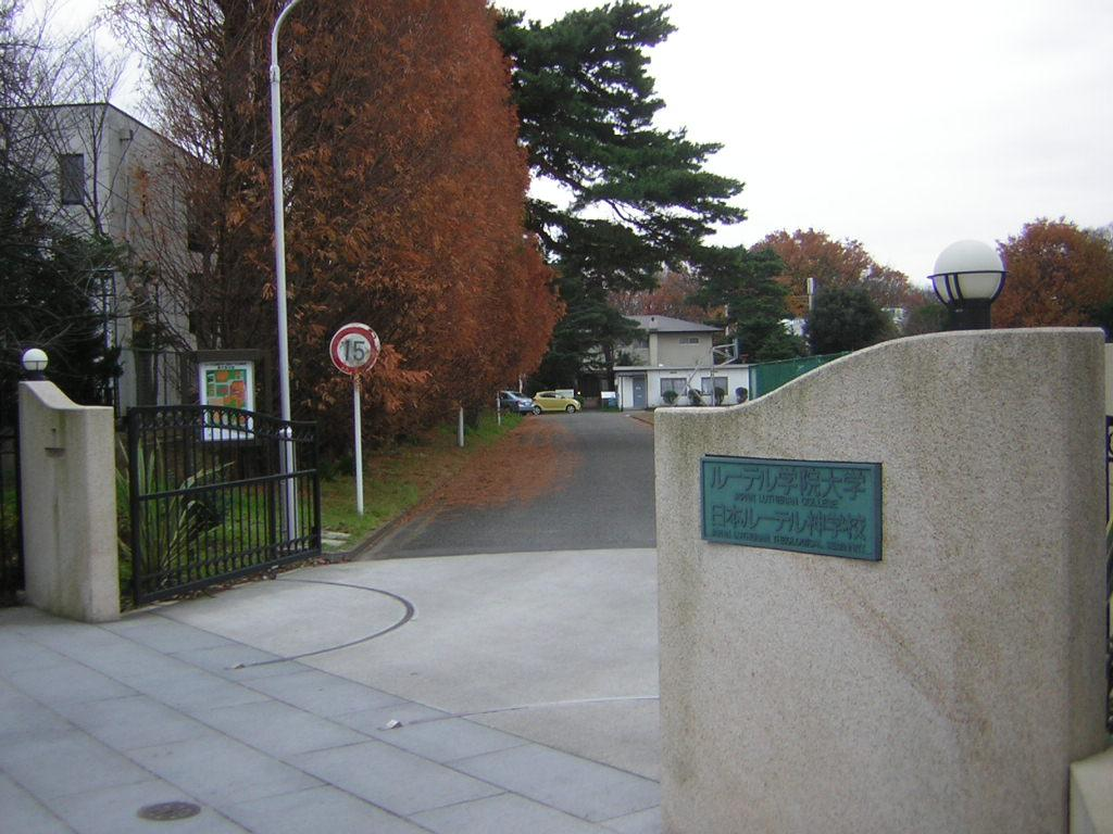 Japan Lutheran College